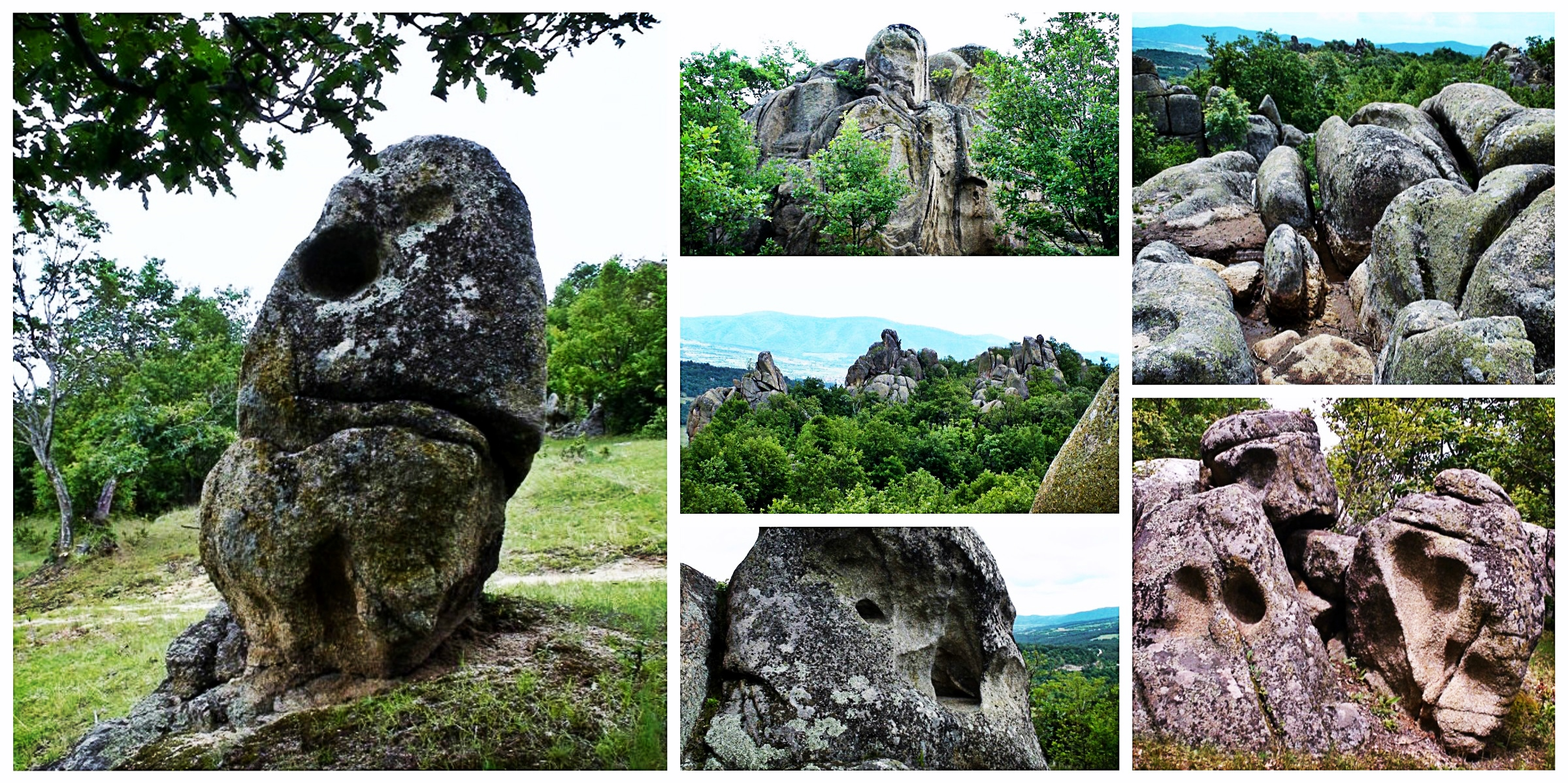 Megalithic_sanctuary_Skumsale_Streltcha_BG